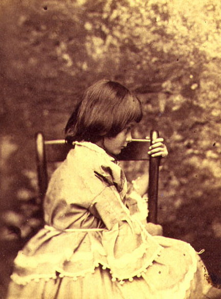 Alice Liddel in profile: this was published in either:[1][2] Lewis Carroll with a text by Graham Ovenden (Masters of photography series). London : McDonald & Queen Anne. 1984, or Lewis Carroll, Photographer by Helmut Gernsheim. London : Max Parrish & Co. 1949.